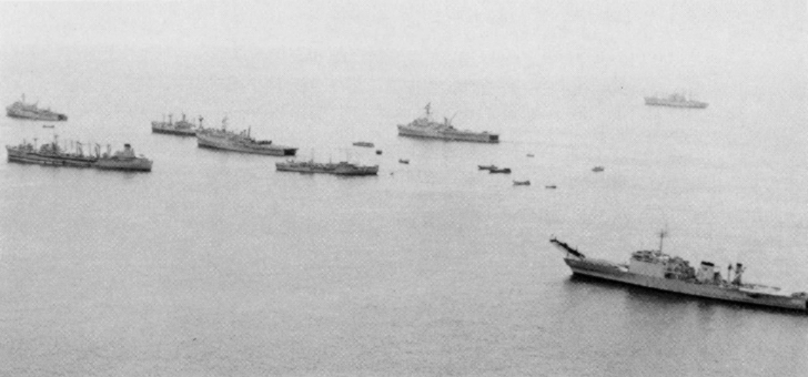 U.S. Navy ships of TF76 wait off Vung Tau, Vietnam in the South China Sea for the start of Operation Frequent Wind, 29 April 1975.